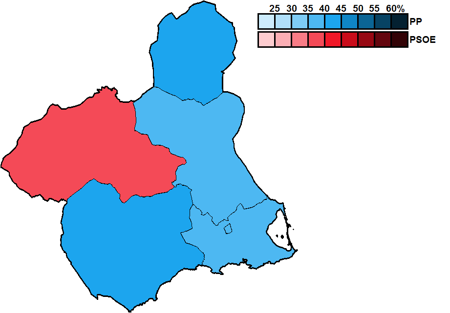 District results for the 2015 Murcian regional election.